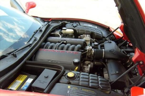 LS1-Engine in a Corvette C5